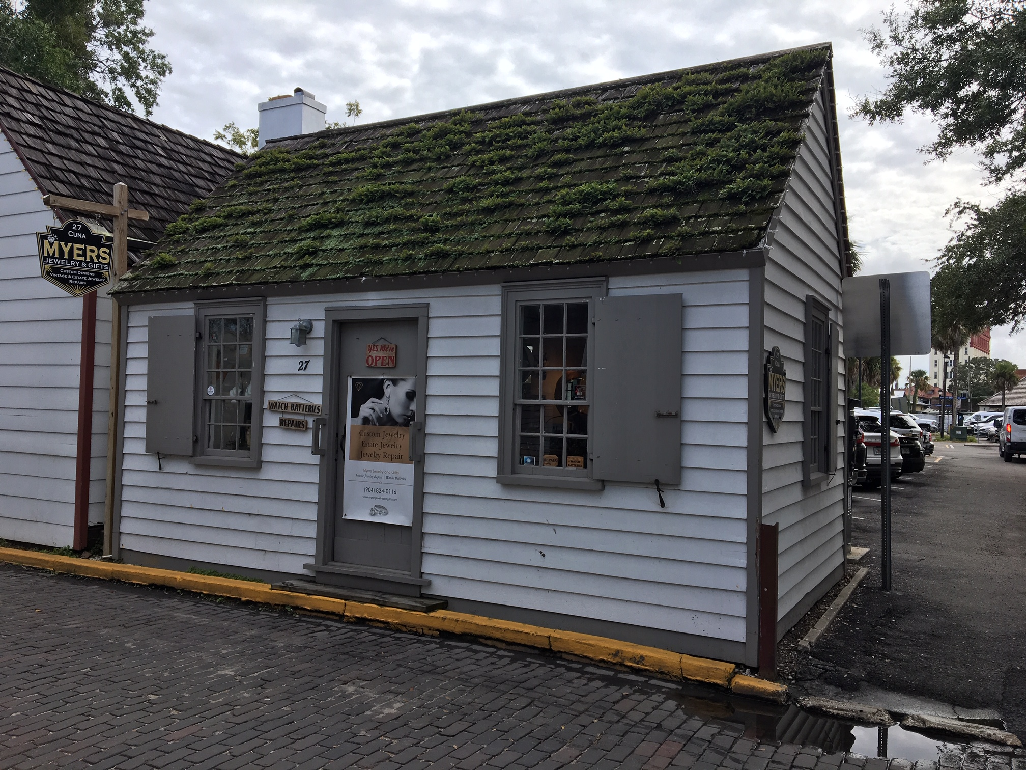 Wells Print Shop building as it appears in 2018.